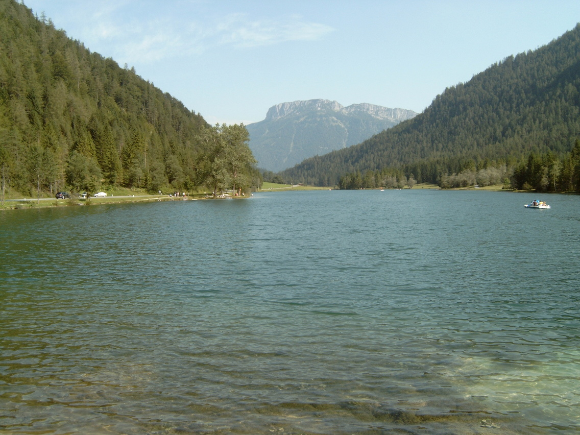 lake "Pillersee", mountain "Steinplatte" in the background